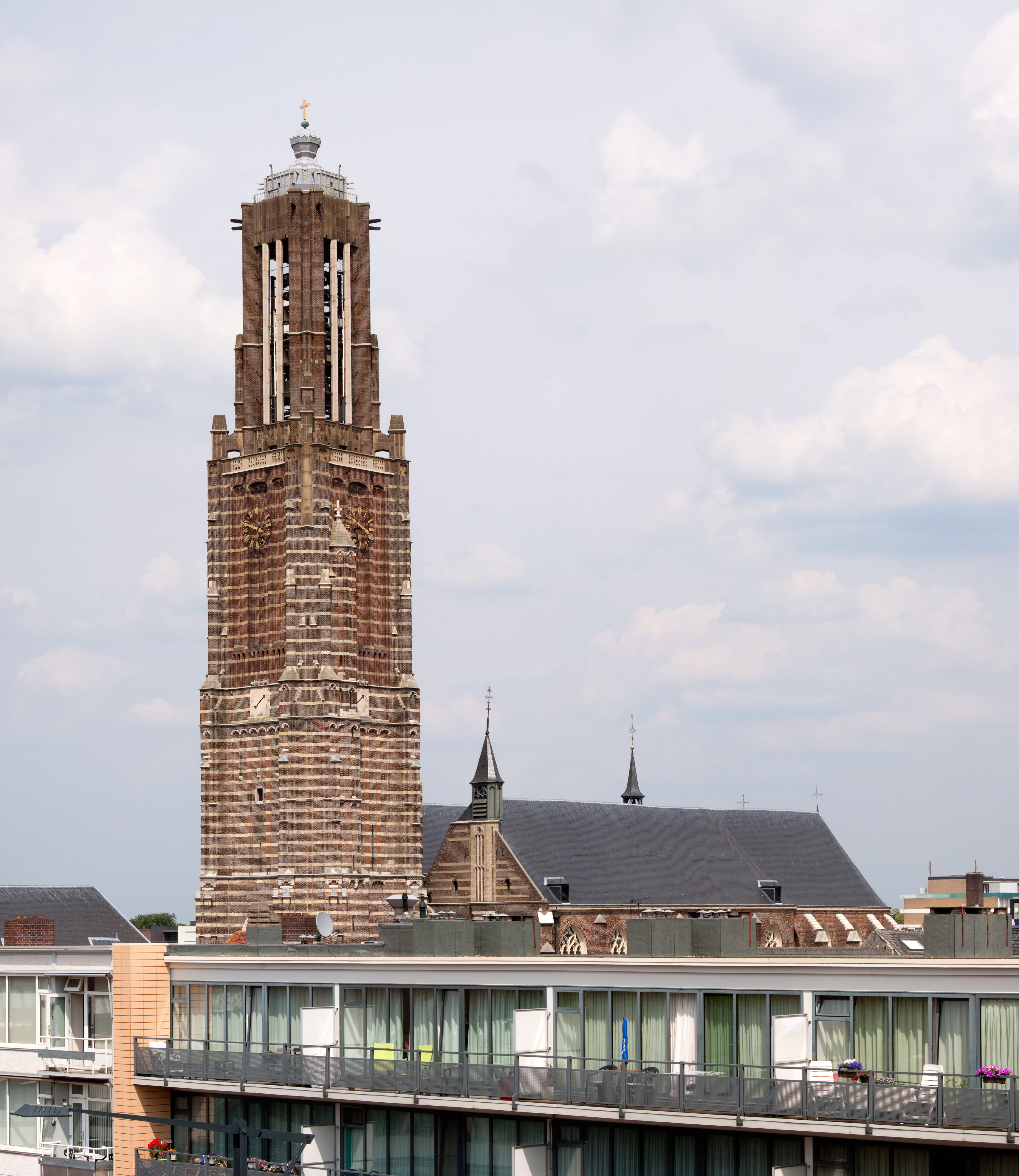 The Church of Saint Martin is the main landmark of the town of Weert in the province of Limburg, the Netherlands. The church was largely built during the Late Middle Ages. Its tower stands 78 meters high.